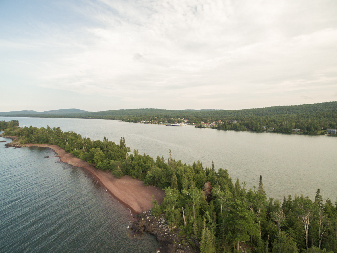 Aerial view of downtown Copper Harbor, with Hunters Point Park in the foreground.